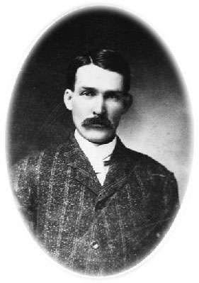 Baxter Warren Earp, youngest brother of Wyatt, Morgan, Virgil, James, and Newton Earp.